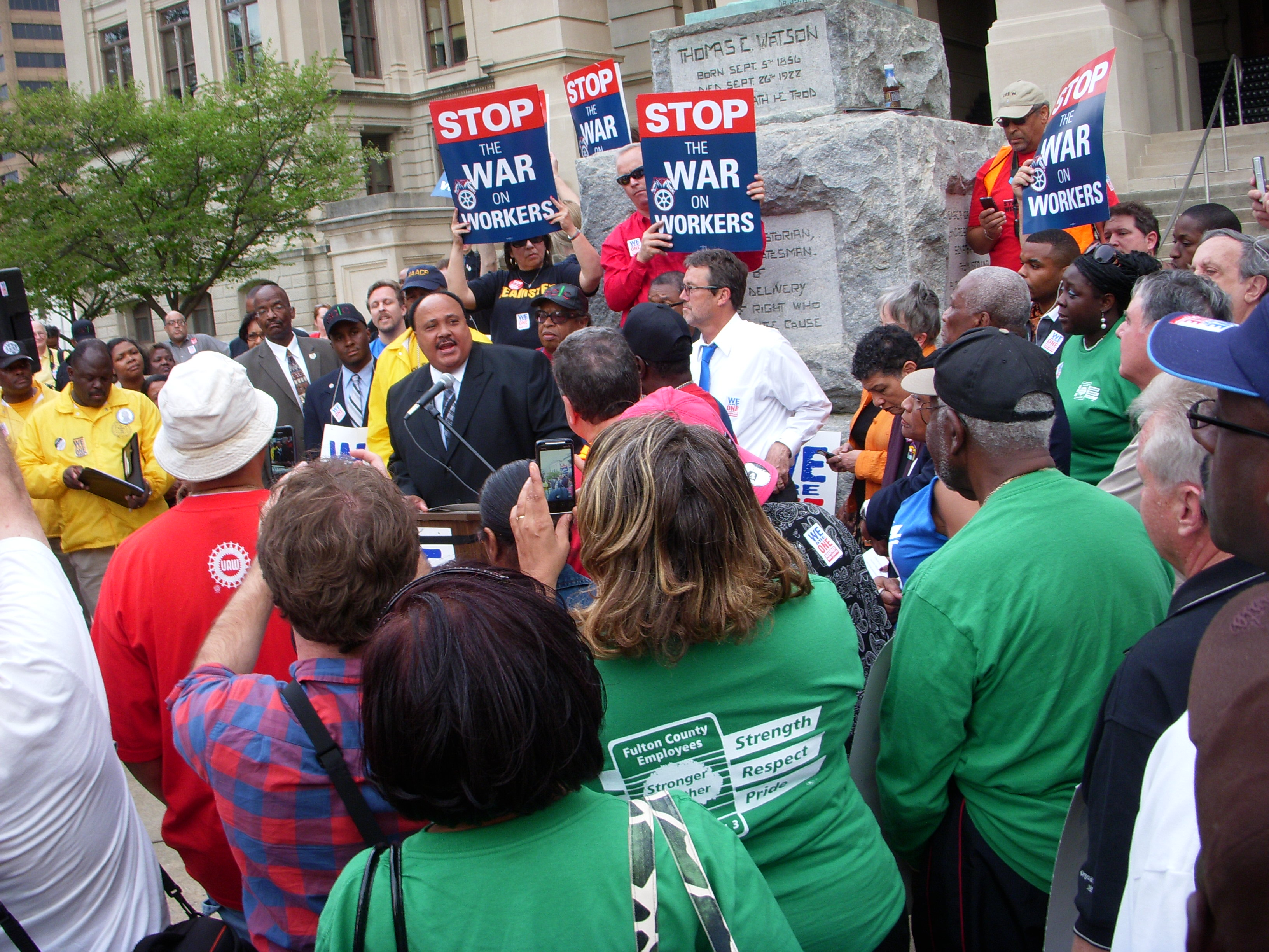 Photograph of Martin Luther King III speaking at the April 4, 2011 "We Are One" Rally in Atlanta protesting the assault on collective bargaining rights of public workers.